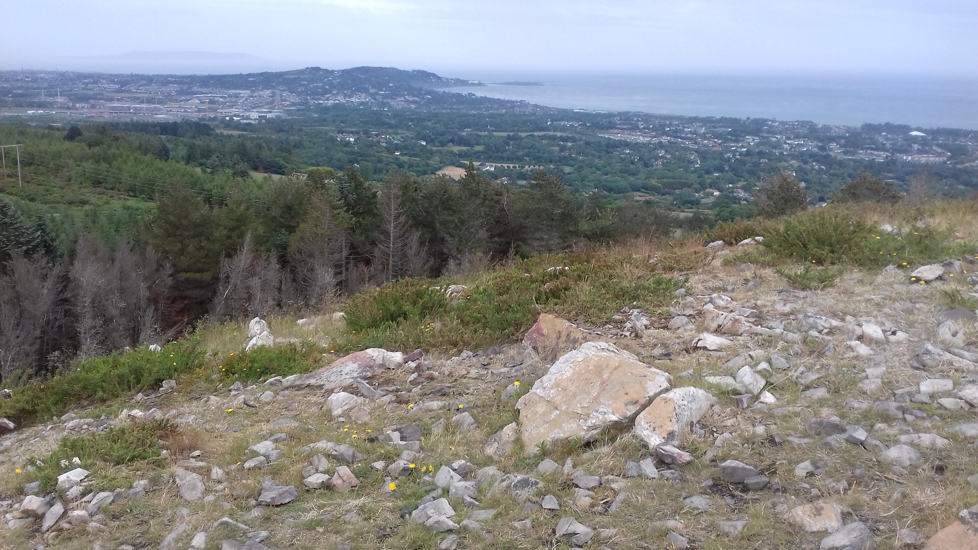 Carrickgollogan Hill (328m) is located near Shankill. A view looking east over the county of Dún Laoghaire-Rathdown towards Dublin Bay.